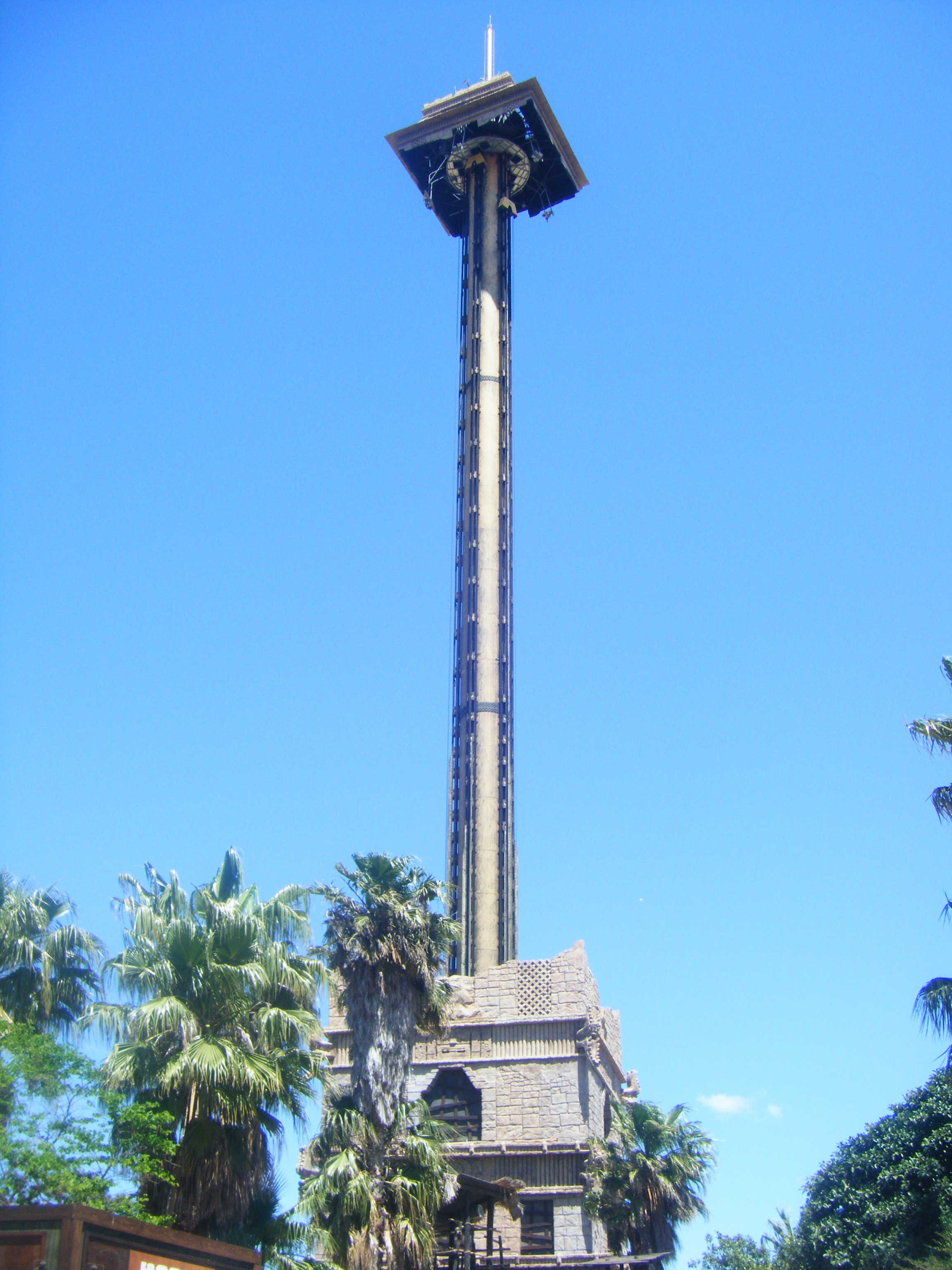 The Hurakan Kondor ride at Port Aventura, Salou, Spain. Riders drop 100m at a speed of up to 73mph.